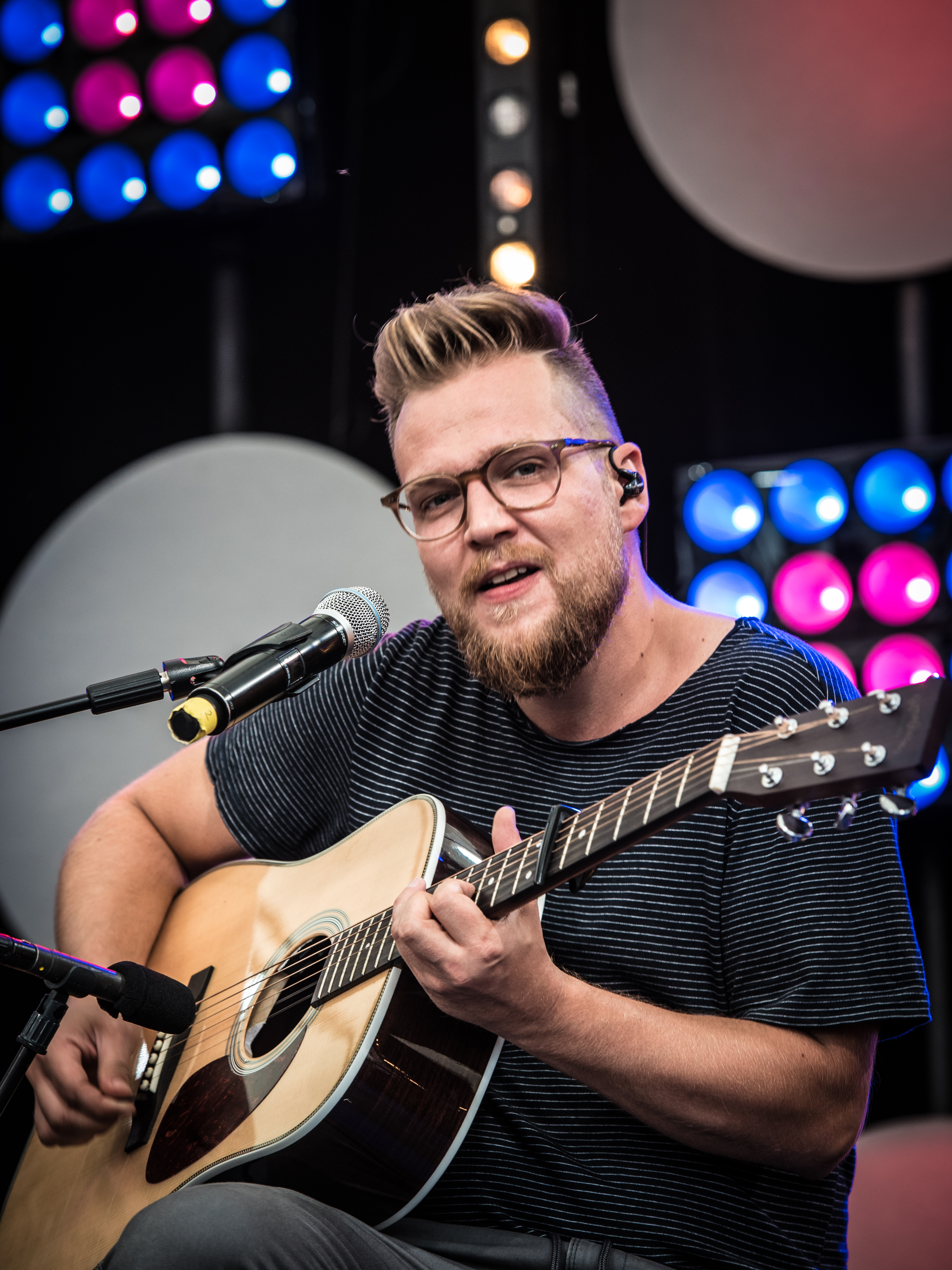 German musician Daniel Nitt at the SWR3 New Pop Festival 2017